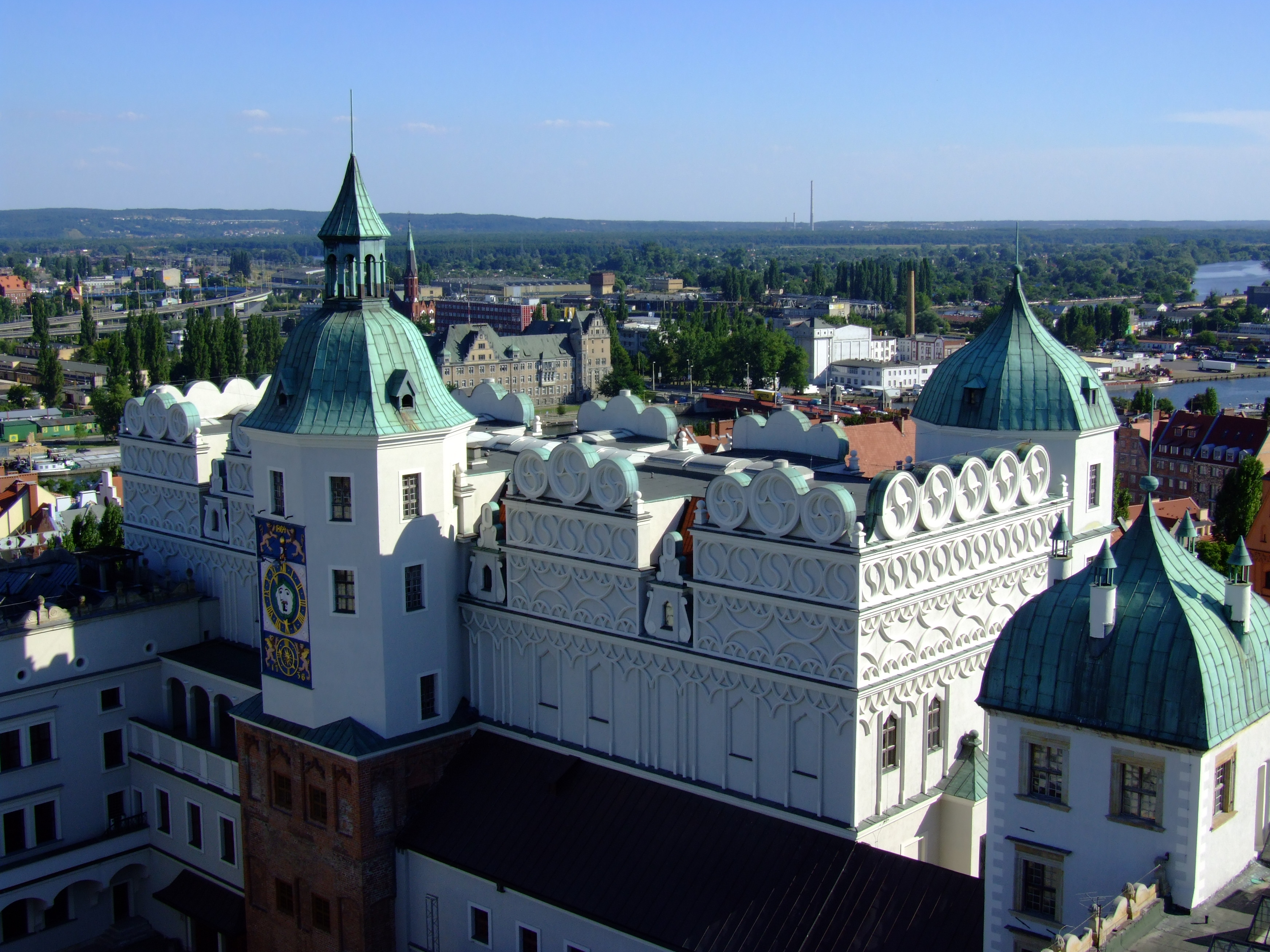 Castle in Szczecin (Poland)